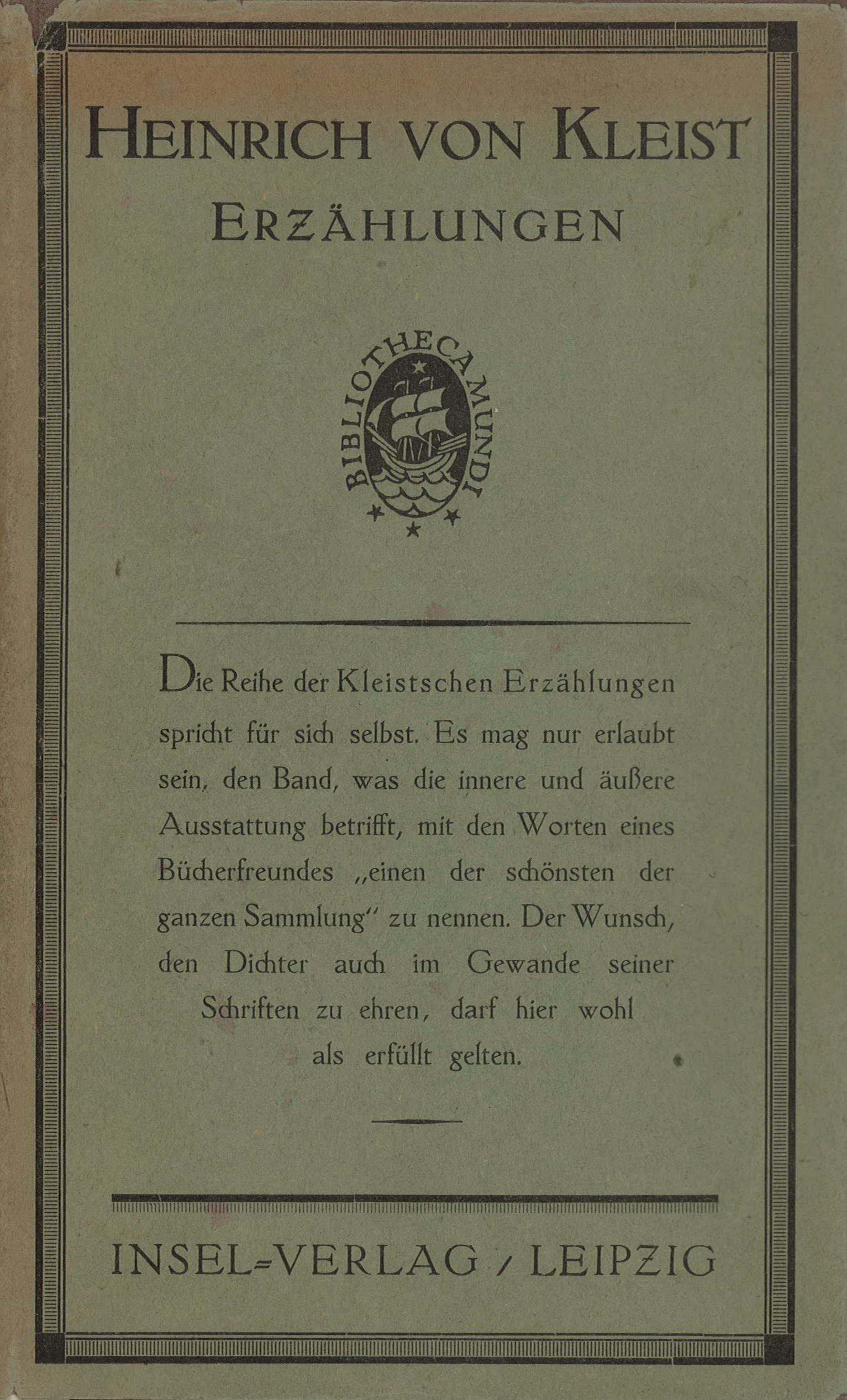 Kleist, Erzählungen, Insel Verlag 1920, Dustwrapper, frontside